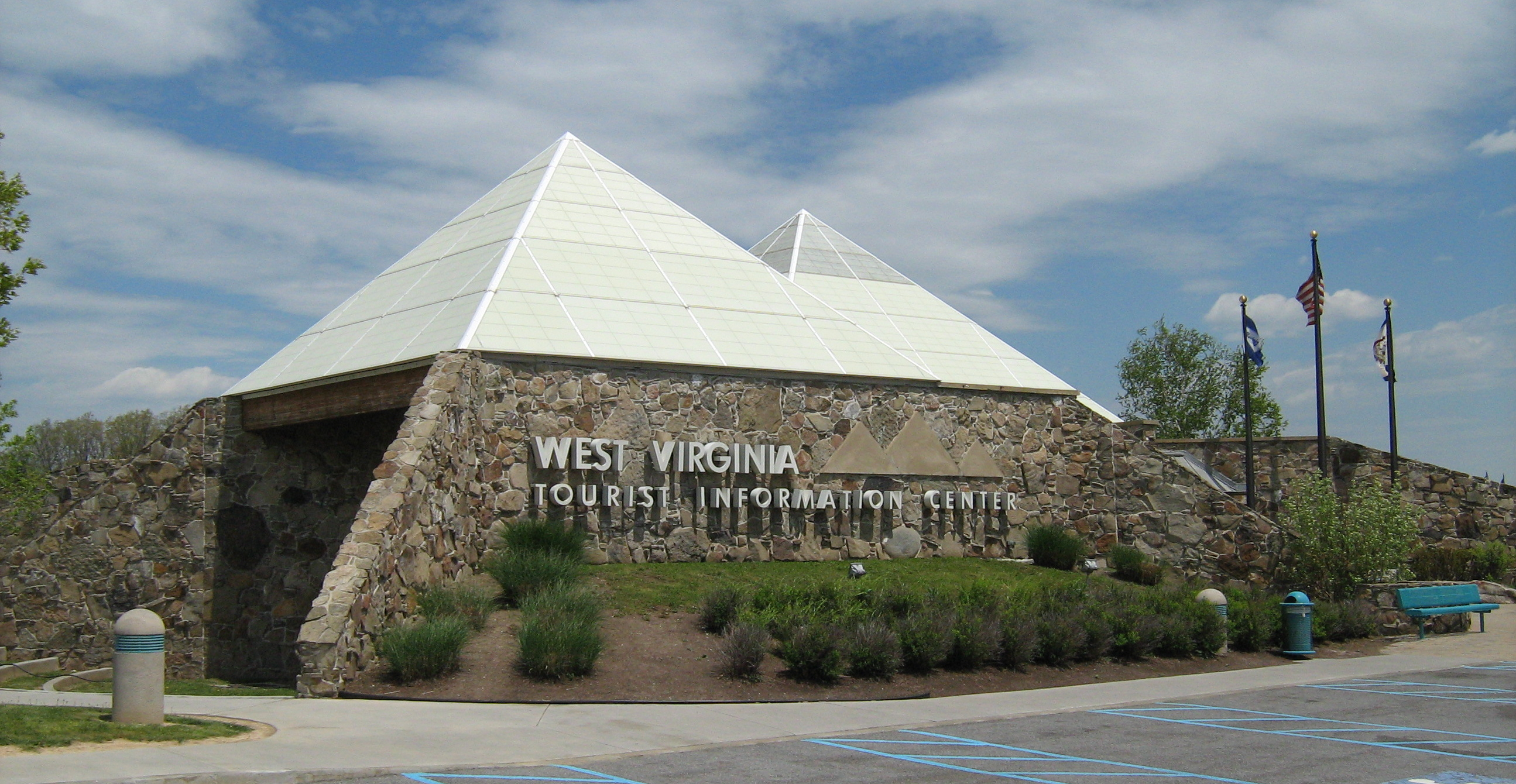 West Virginia official Welcome Center (pyramid-shaped buildings) located east of exit 9 on Interstate highway I-77 and US-460 near Princeton, West Virginia.